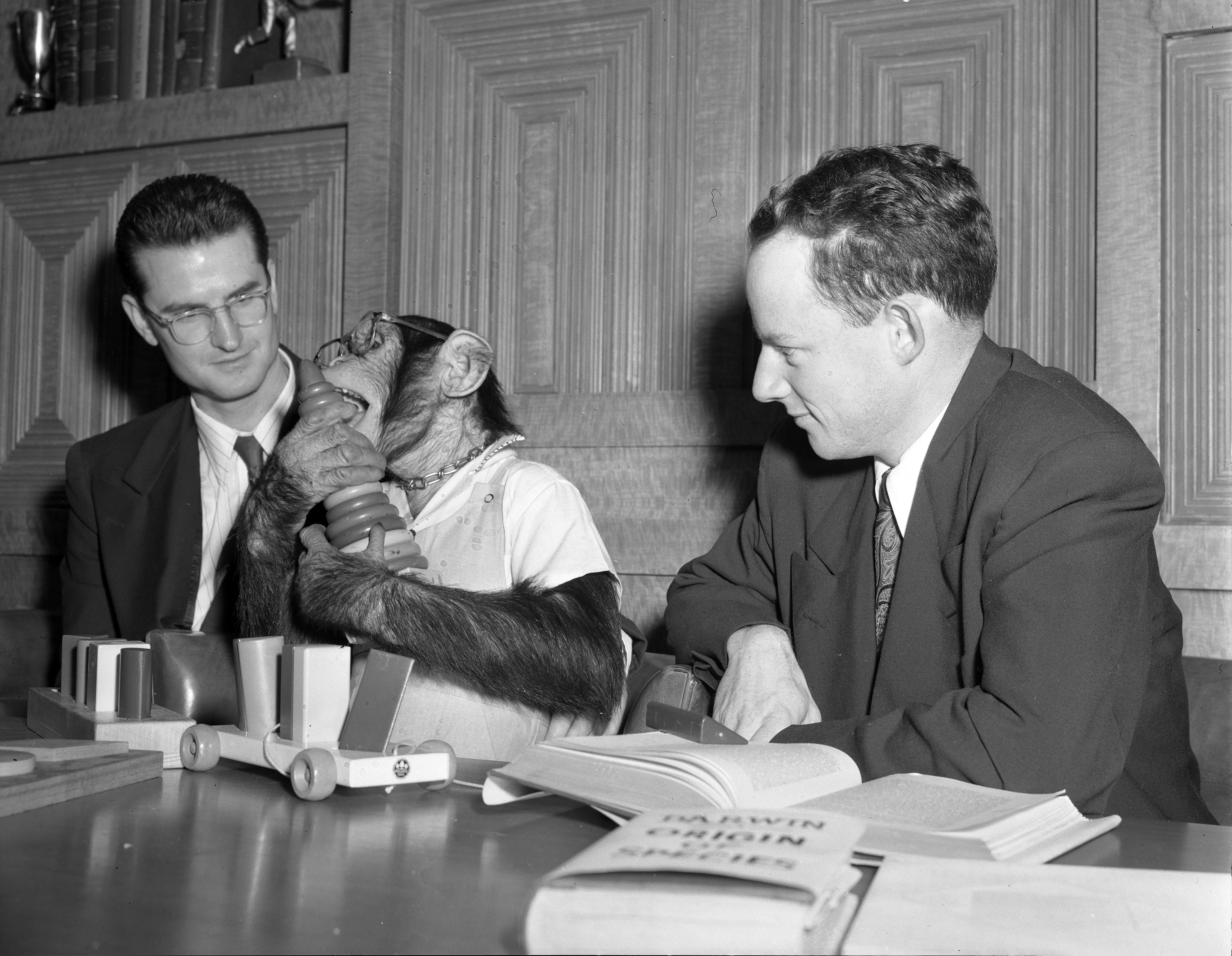 Title: California Occidental College's psychology department gives Bonzo, movie chimpanzee, mental test, 1951 Published caption:SKULL SESSION: Prof. Luther Jennings, left, and David Cole of Occidental College's psychology department, give Bonzo, movie chimpanzee, mental test for 5-year-old child. Bonzo didn’t do well at that but proved "brilliant" in his various stunts. Publication:Los Angeles Times Publication date:Febr 1, 1951 URL: Source:Los Angeles Times photographic archive, UCLA Library